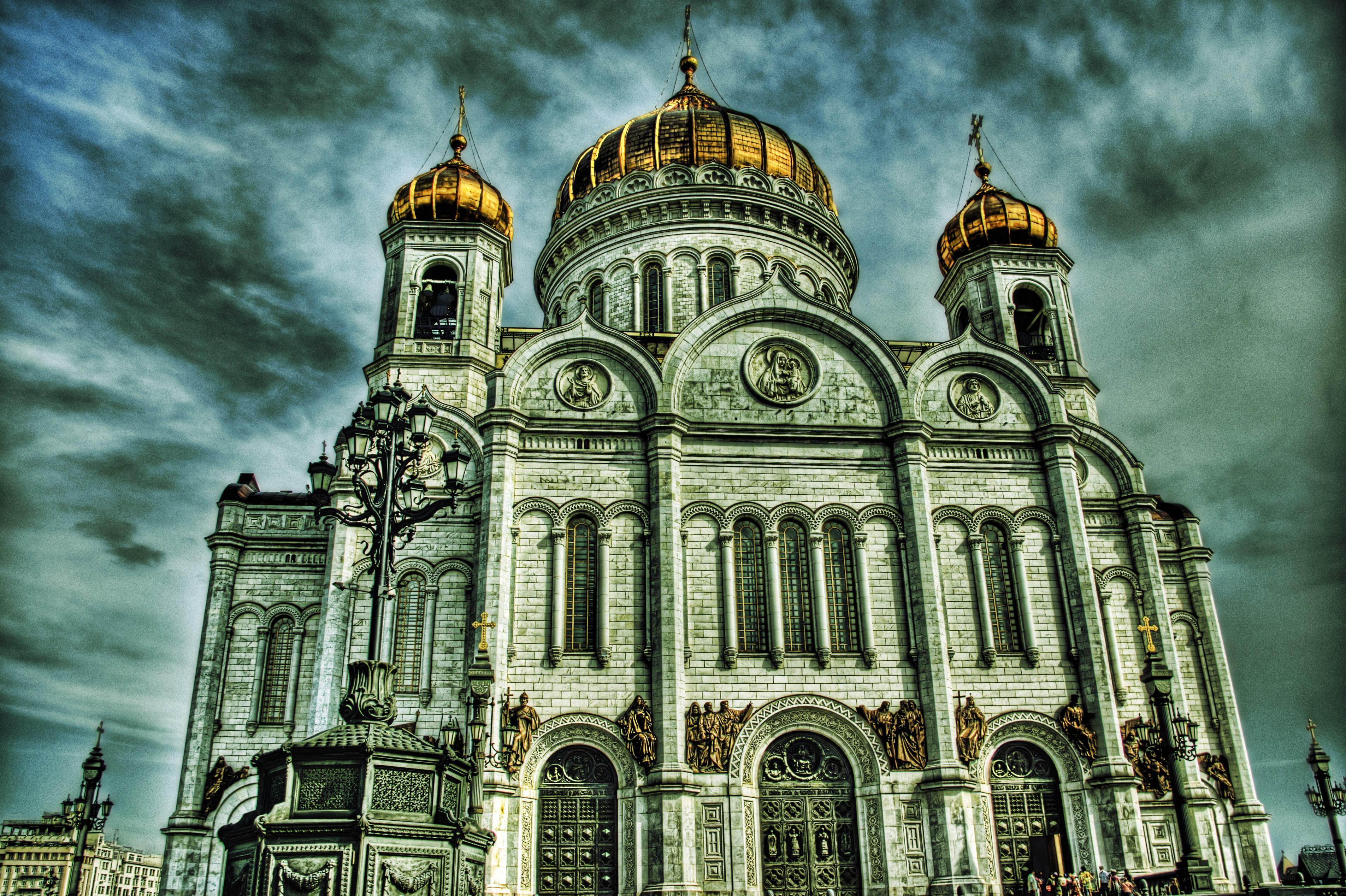 The Cathedral of Christ the Saviour ( Хра́м Христа́ Спаси́теля ) is the tallest Eastern Orthodox Church in the world. It is situated in Moscow, on the bank of the Moskva River, a few blocks west of the Kremlin.